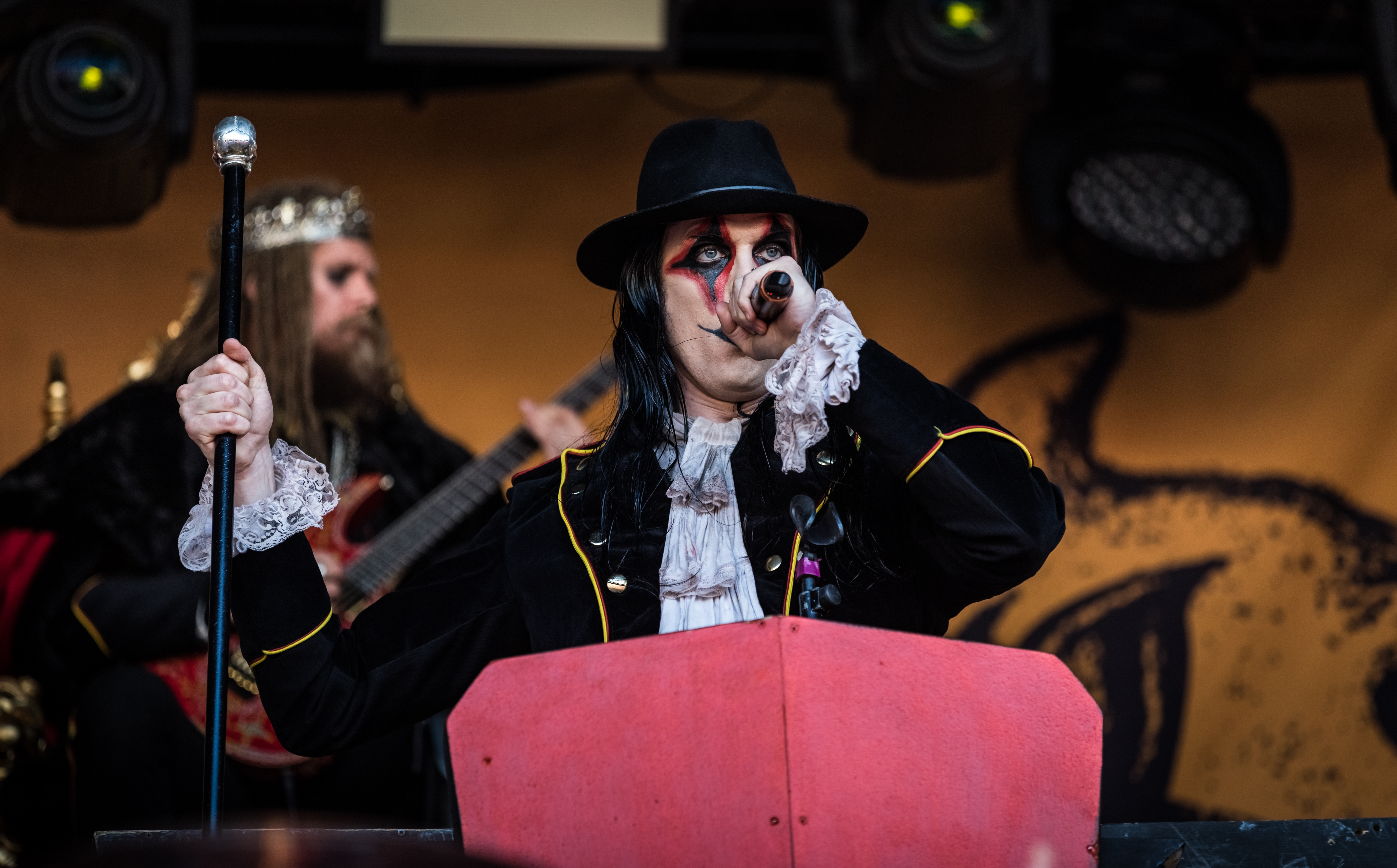 Avatar - Rock am Ring 2018